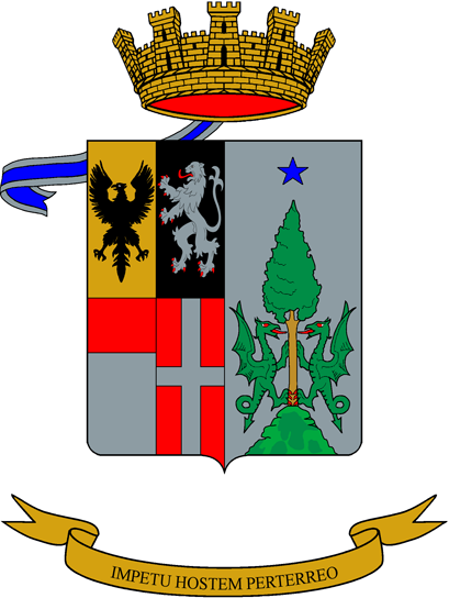 Coat of Arms of the 8° Cavalry Regiment; Italian Army.